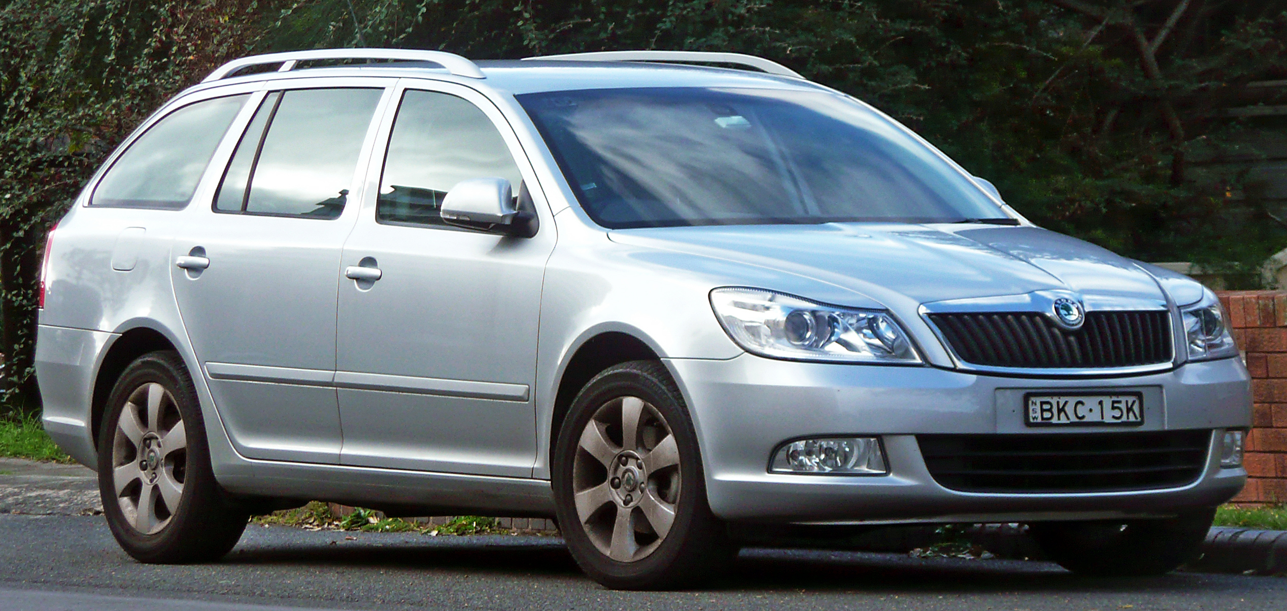 2009–2010 Škoda Octavia TSI station wagon. Photographed in Cronulla, New South Wales, Australia.